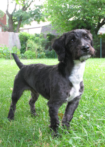 Photo of Jack-A-Poo, Jack Russell Terrier-Poodle hybrid, named "Obi." Digital photo of my dog (post-haircut)taken by me mid-July 2007.